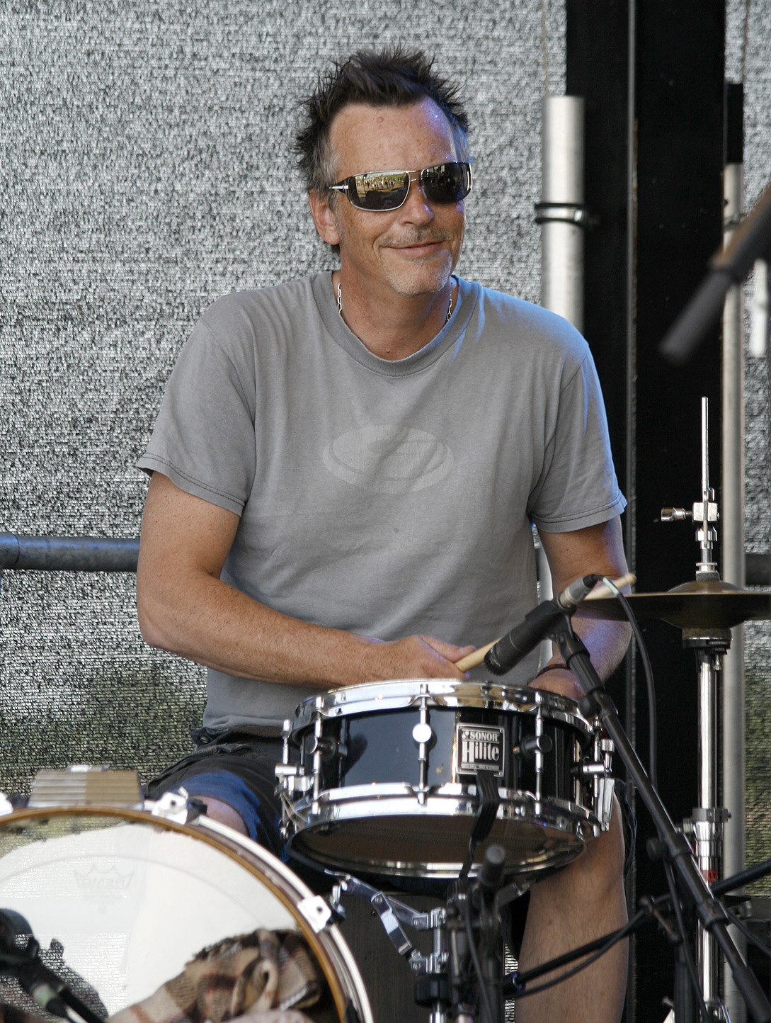 Alex Deutsch with Anna F. - concert at the area of the future Seestadt Aspern in Vienna.